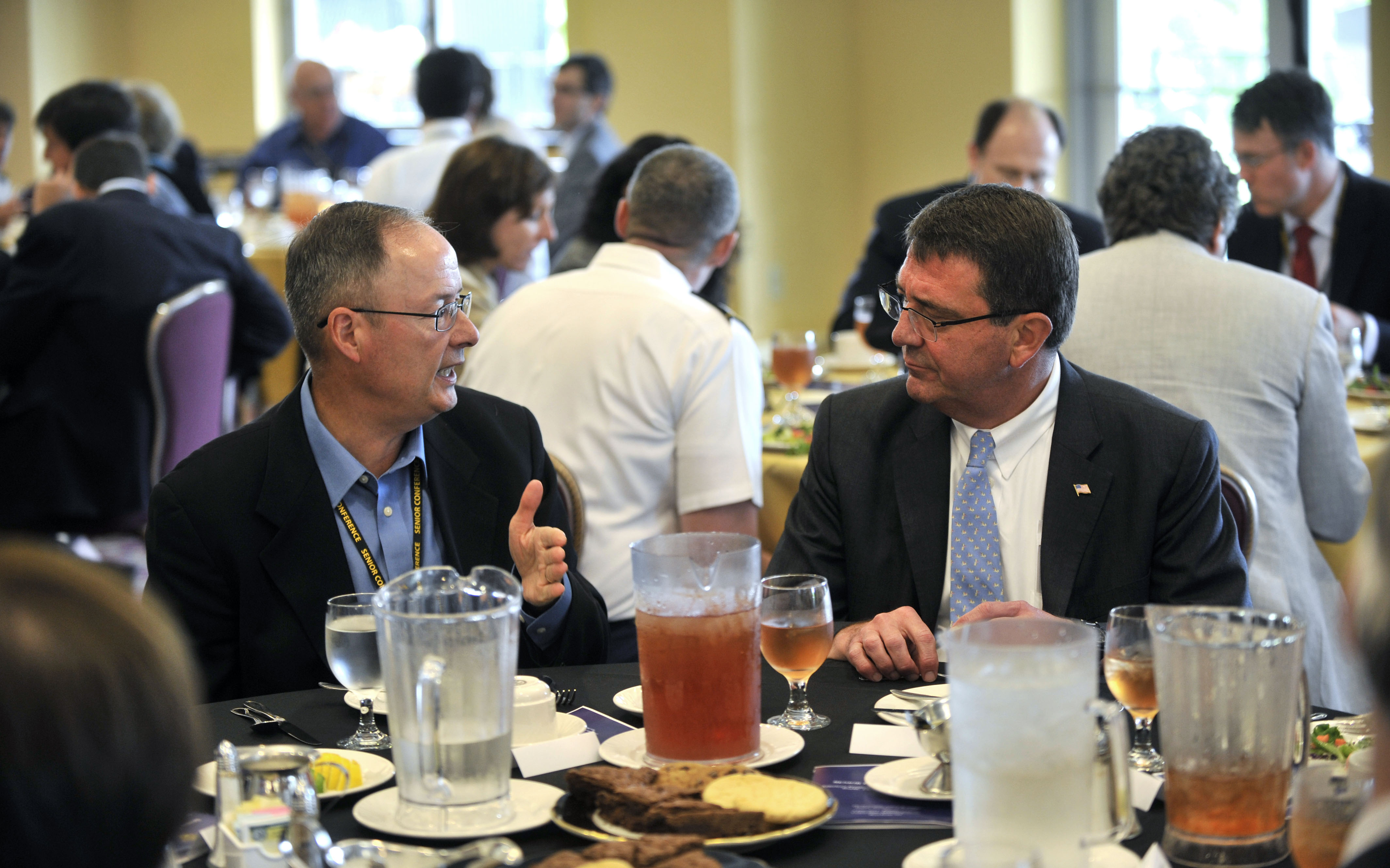 Commander, U.S. Cyber Command and Director, National Security Agency Gen. Keith Alexander (left) talks to Deputy Secretary of Defense Ashton B. Carter during lunch at the Senior Conference XLIX in the United States Military Academy at West Point, N.Y., on June 4, 2012. Carter is the keynote speaker for the conference, which provides a forum for distinguished representatives from the private sector, government, academia, the think-tank community, and the joint military services to discuss topics of national security importance.